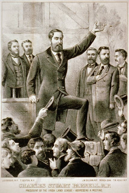 Irish political leader Charles Stewart Parnell (1846-1891) addressing a meeting. Library of Congress description: "Print shows Charles Stuart Parnell, member of Parliament, standing with one arm raised in front of a group of men. Standing behind him are J.G. Biggar, T. Sexton, J.W. Sullivan, Patrick Egan, T. M. Healy."